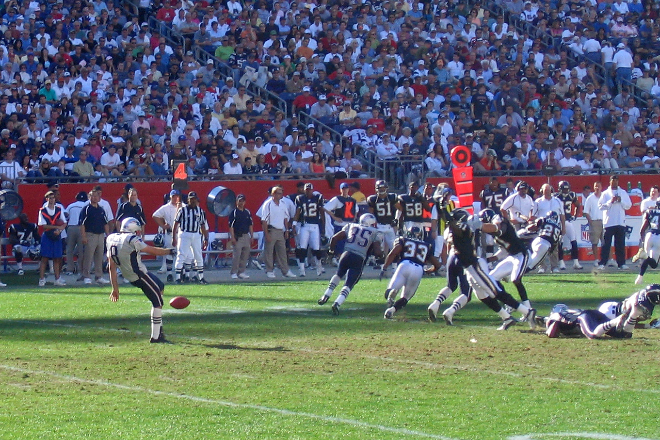 The New England Patriots punt against the San Diego Chargers